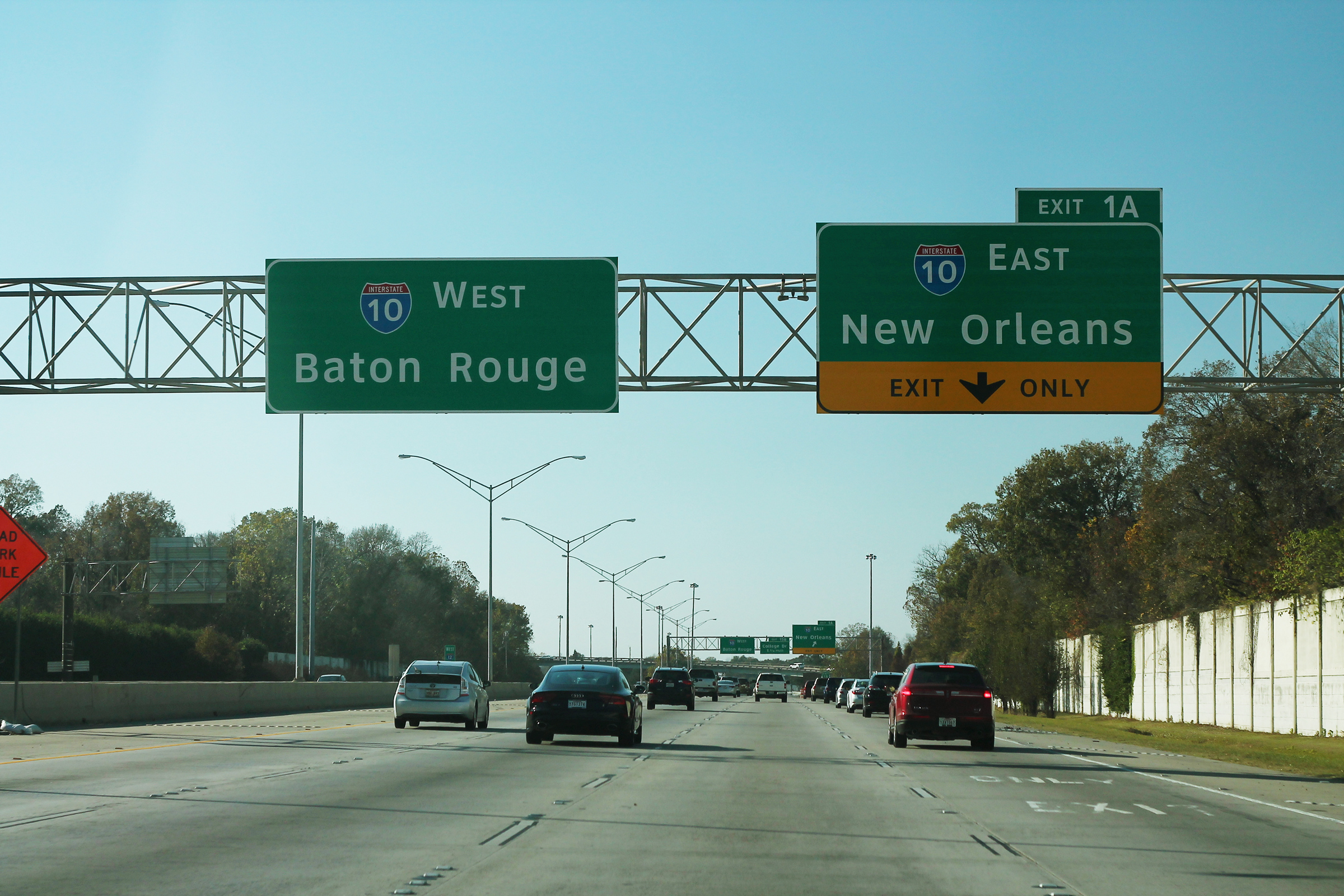 I-12 West End - Exit 1A - I-10 East